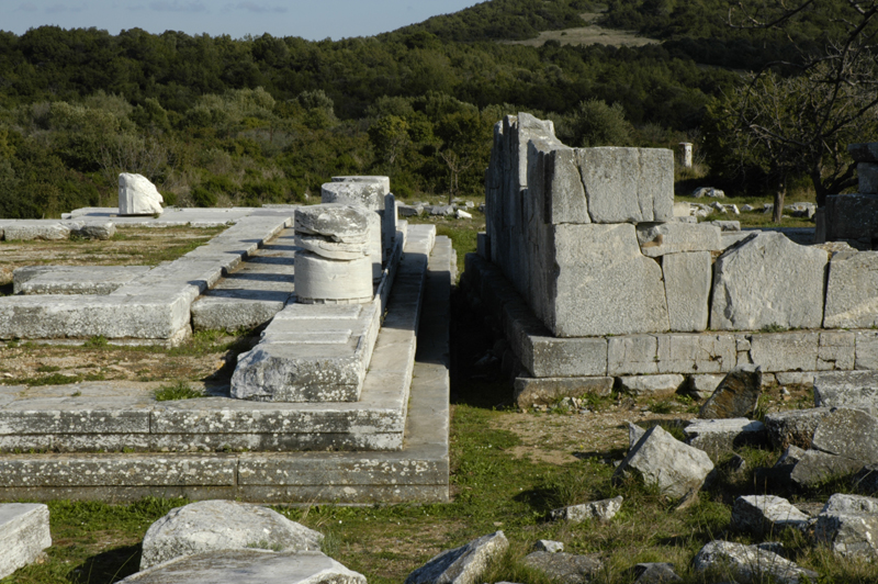 View of the 5th BCE (L) and Archaic (R) temples looking east.J. M. Harrington, personal digital image